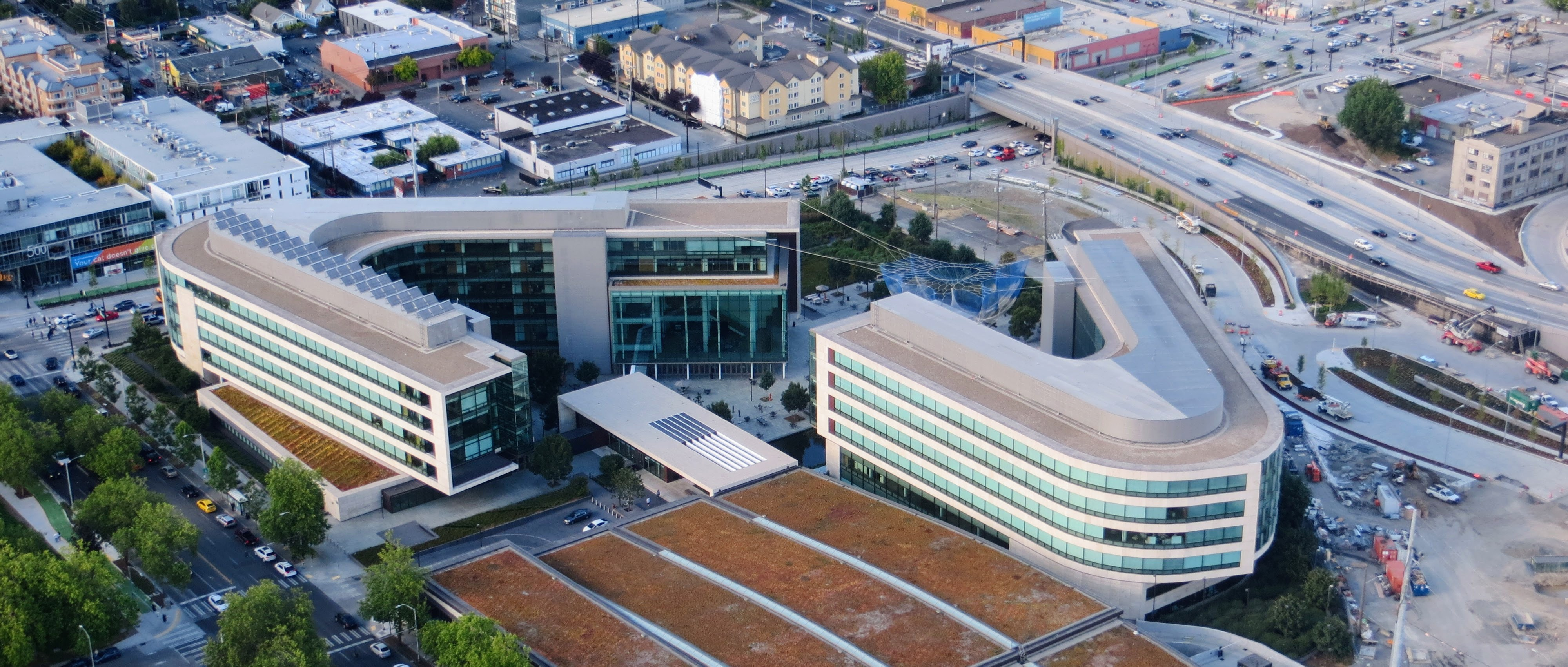 Bill and Melinda Gates Foundation Complex as seen from the Space Needle